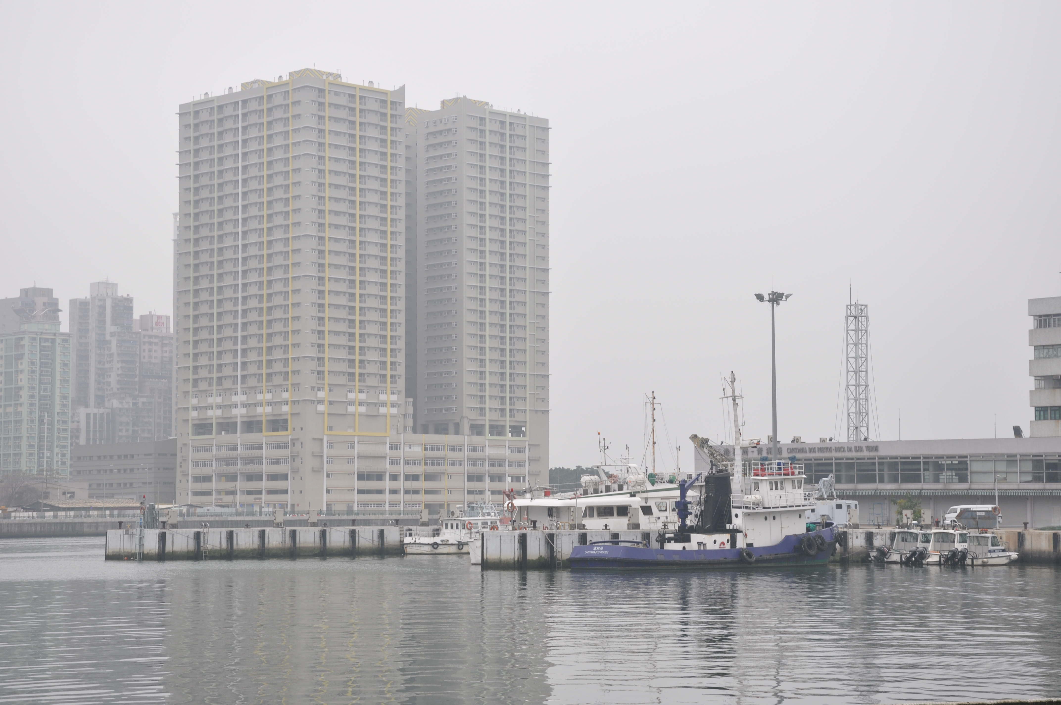 Public housing in Fai Chi Kei, Macau, complete in 2010